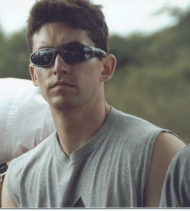 Author Photograph